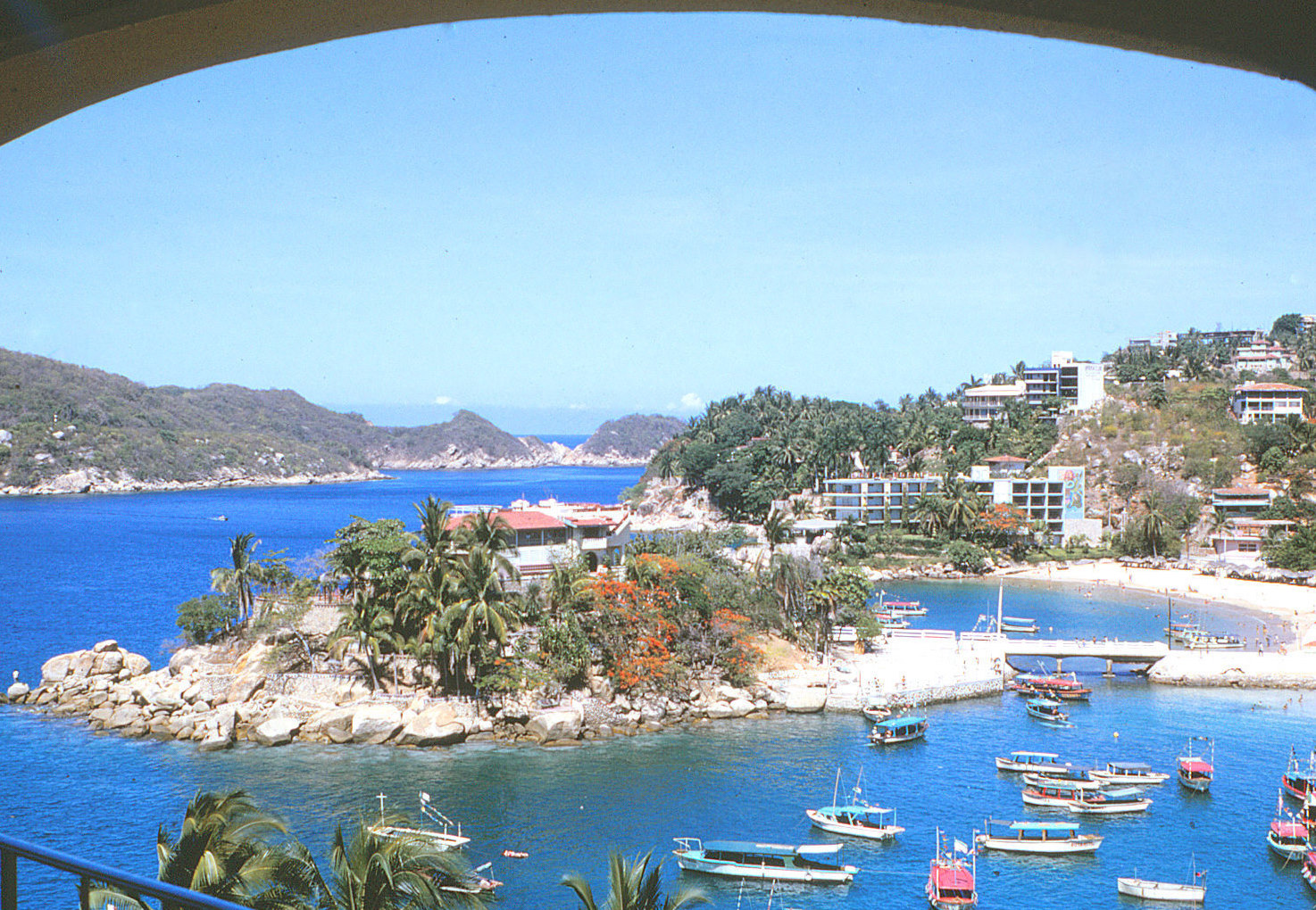 (Original description in Flickr): A great spot for snorkeling at the time (1966) and maybe even today.